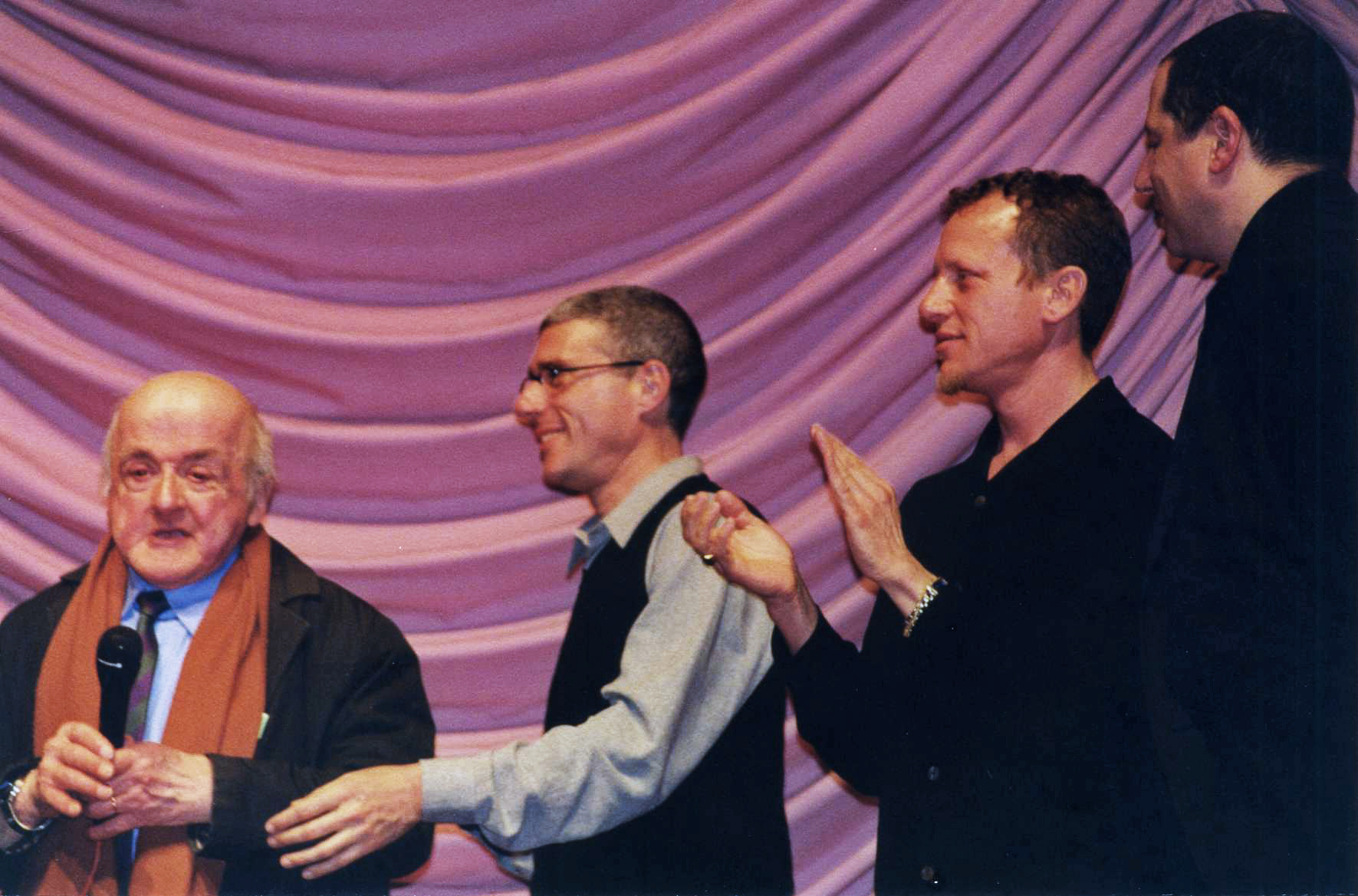 Pierre Seel being applauded by filmmakers Rob Epstein, Jeffrey Friedman, and Michael Ehrenzweig at the German premiere of Paragraph 175 in the Zoo Palast Cinema, Berlin, on 22 February 2000.